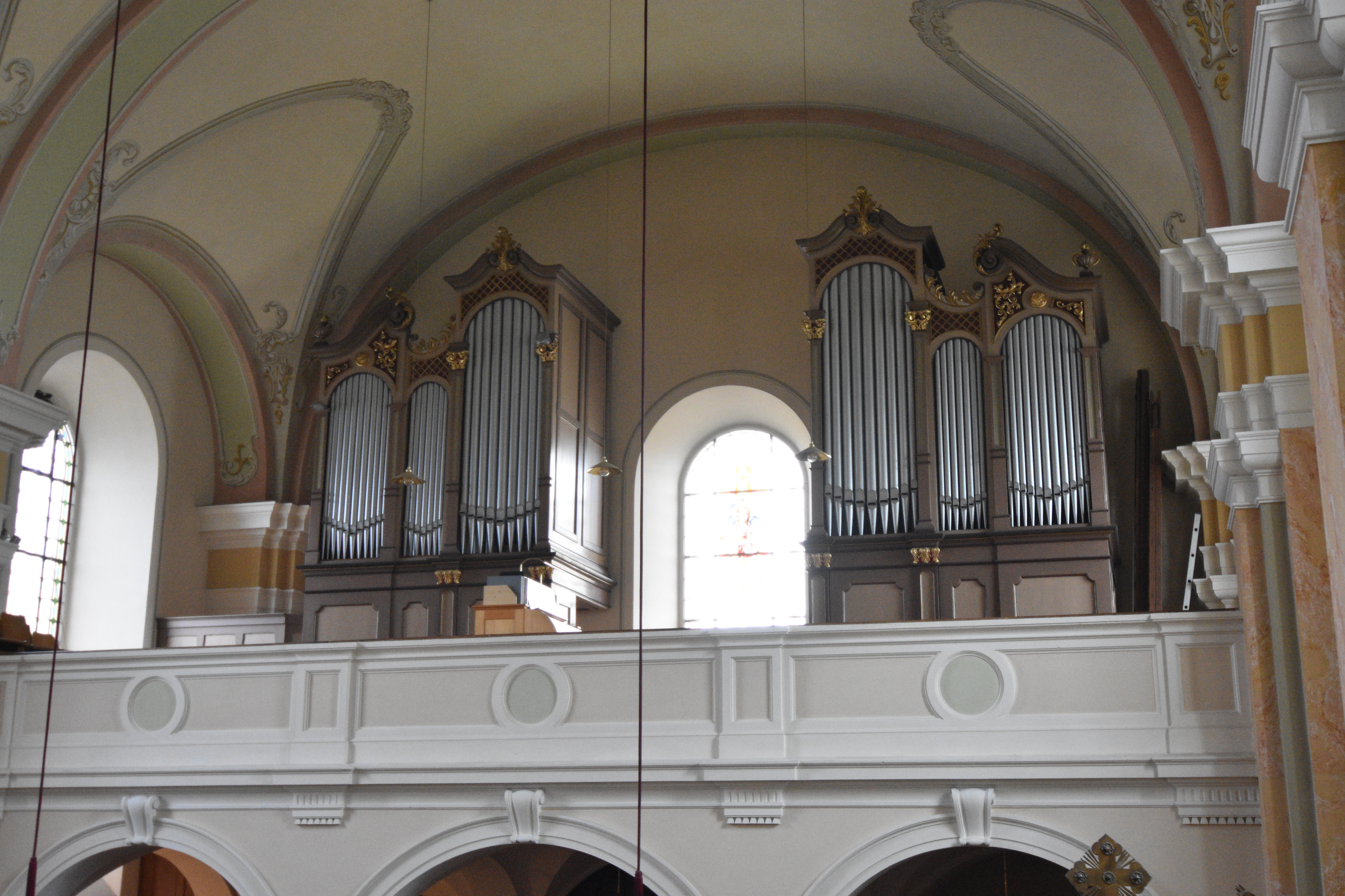 Pipe Organs Church hl. Nikolaus (Wundschuh) - Interior